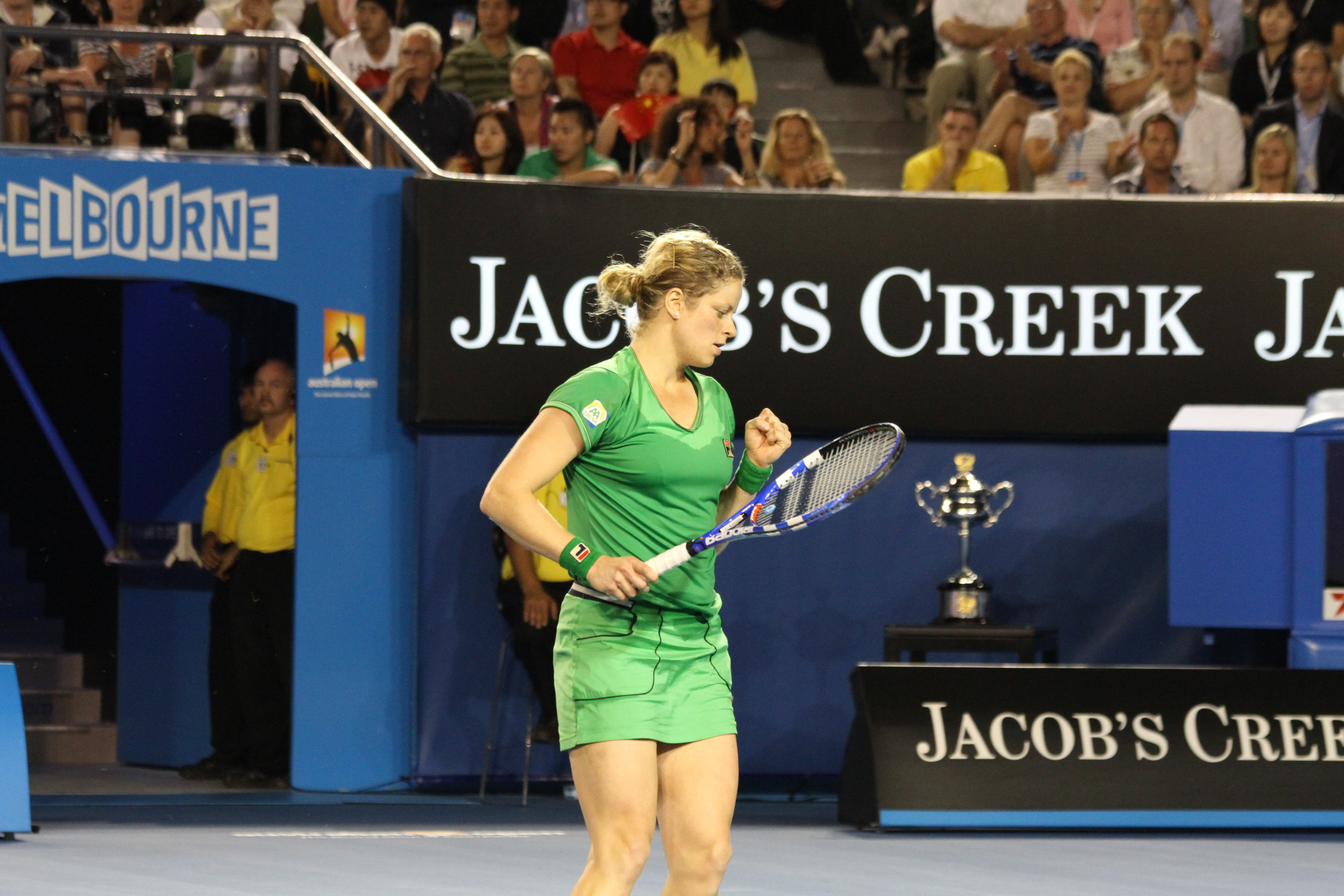 Kim Clijsters at the 2011 Australian Open